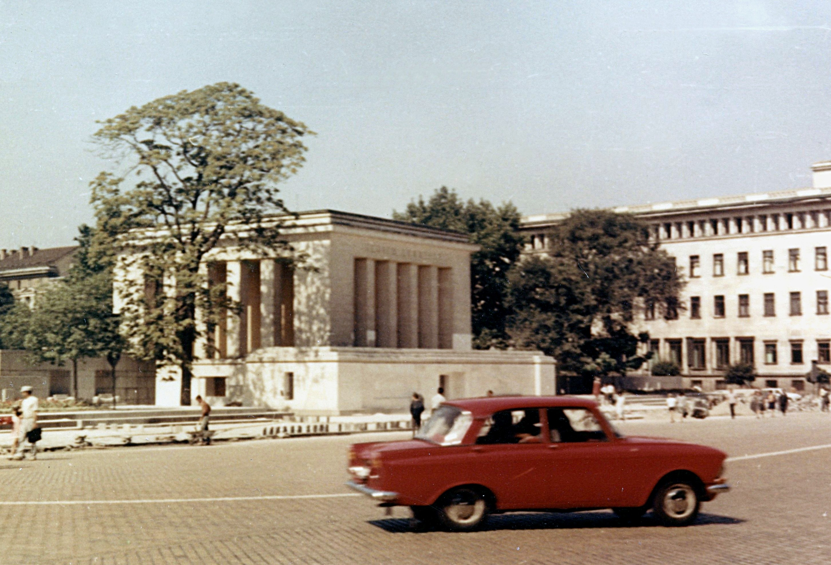 Georgi Dimitrov Mausoleum in Sofia